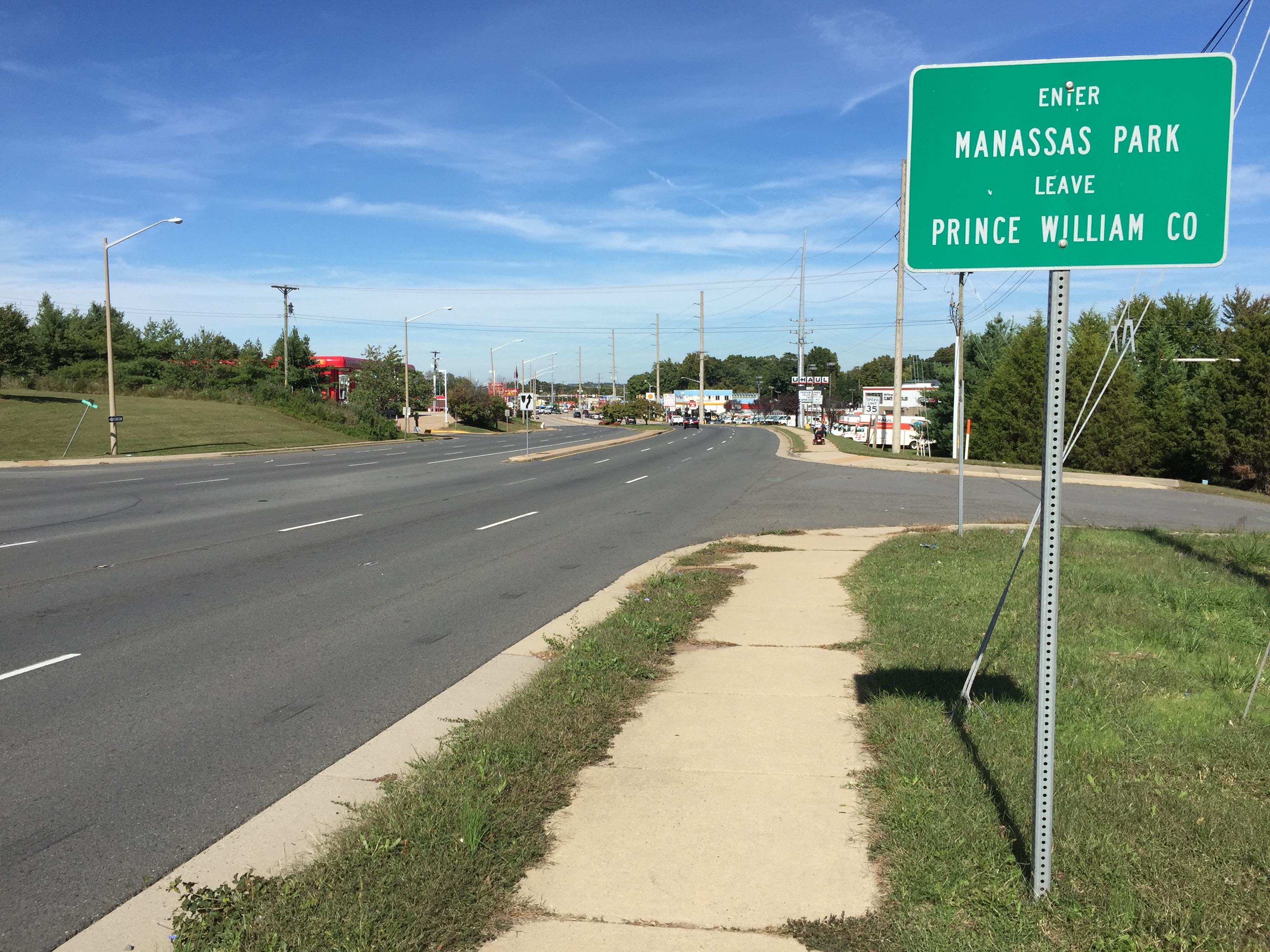 View north along Virginia State Route 28 (Centreville Road) at Conner Drive, entering Manassas Park, Virginia from Buckhall, Prince William County, Virginia